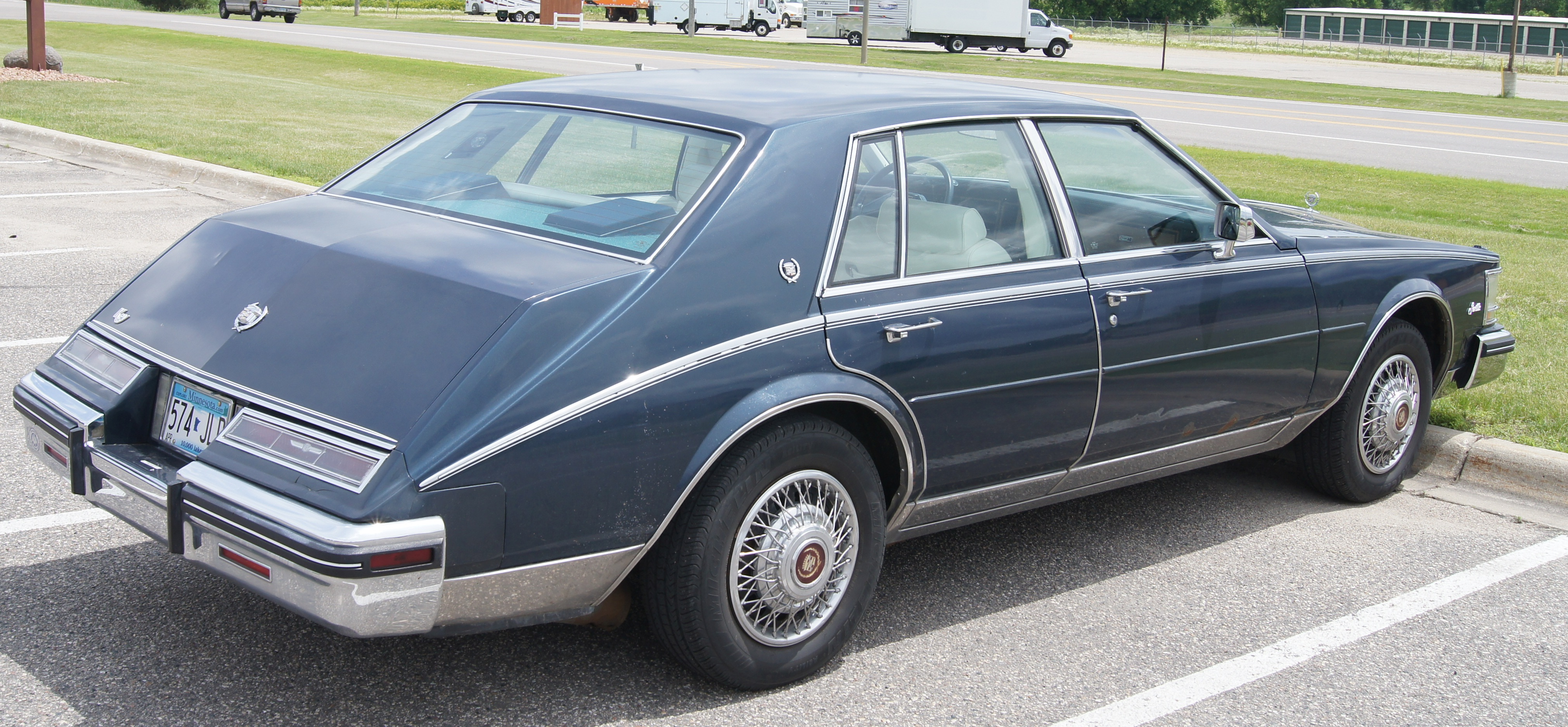 Cropped version of File:1985 Cadillac Seville (14302033499).jpg